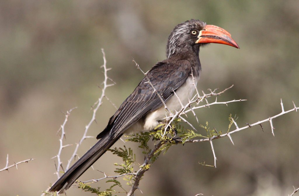 A Crowned Hornbill at Hluhluwe-Umfolozi Game Reserve, South Africa.